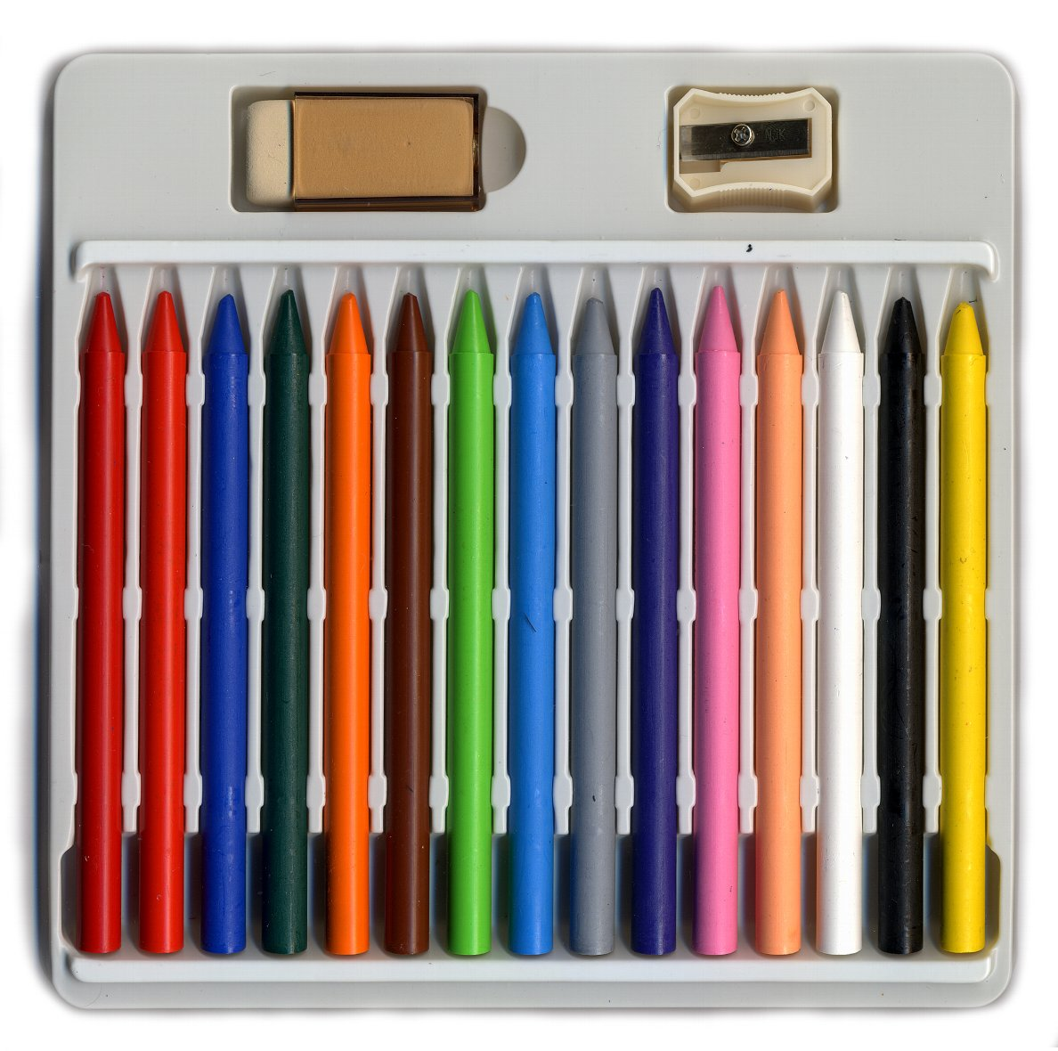 Coupy-pencil